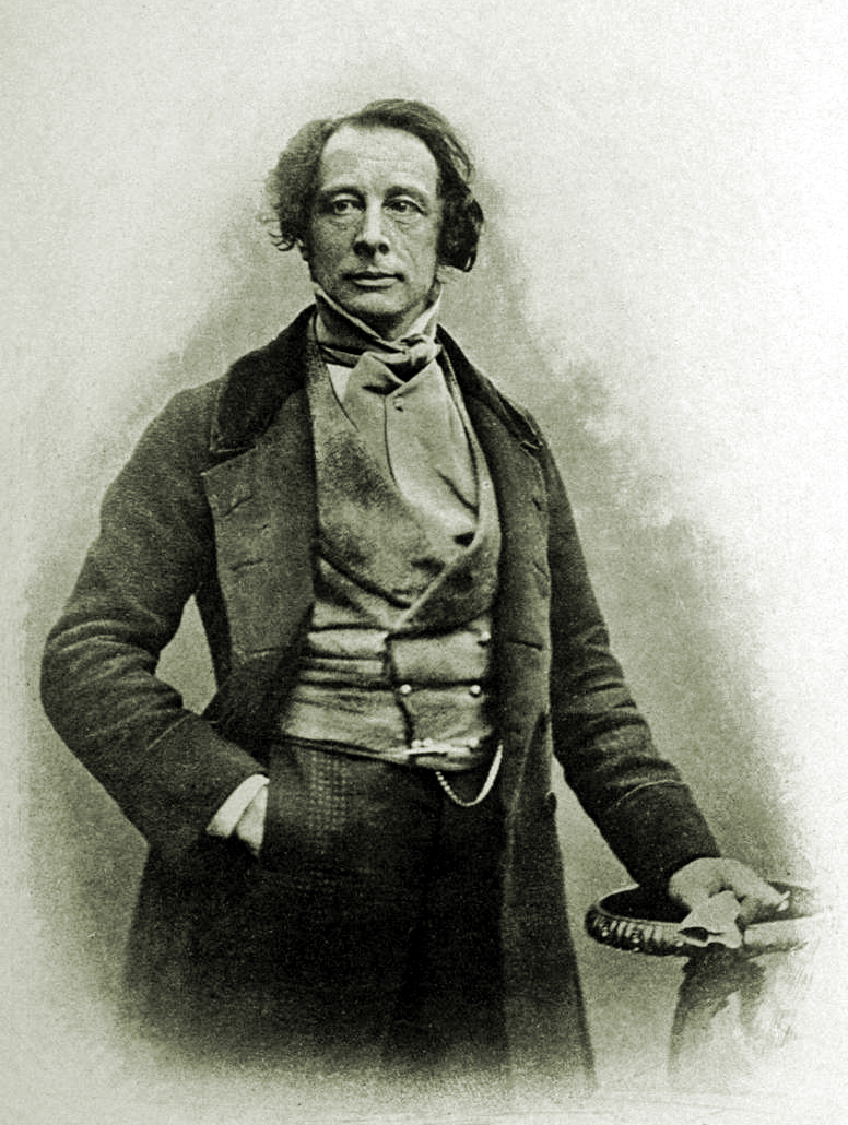 Charles Dickens sat for this daguerreotype portrait in Antoine Francois Jean Claudet's London studio about 1852